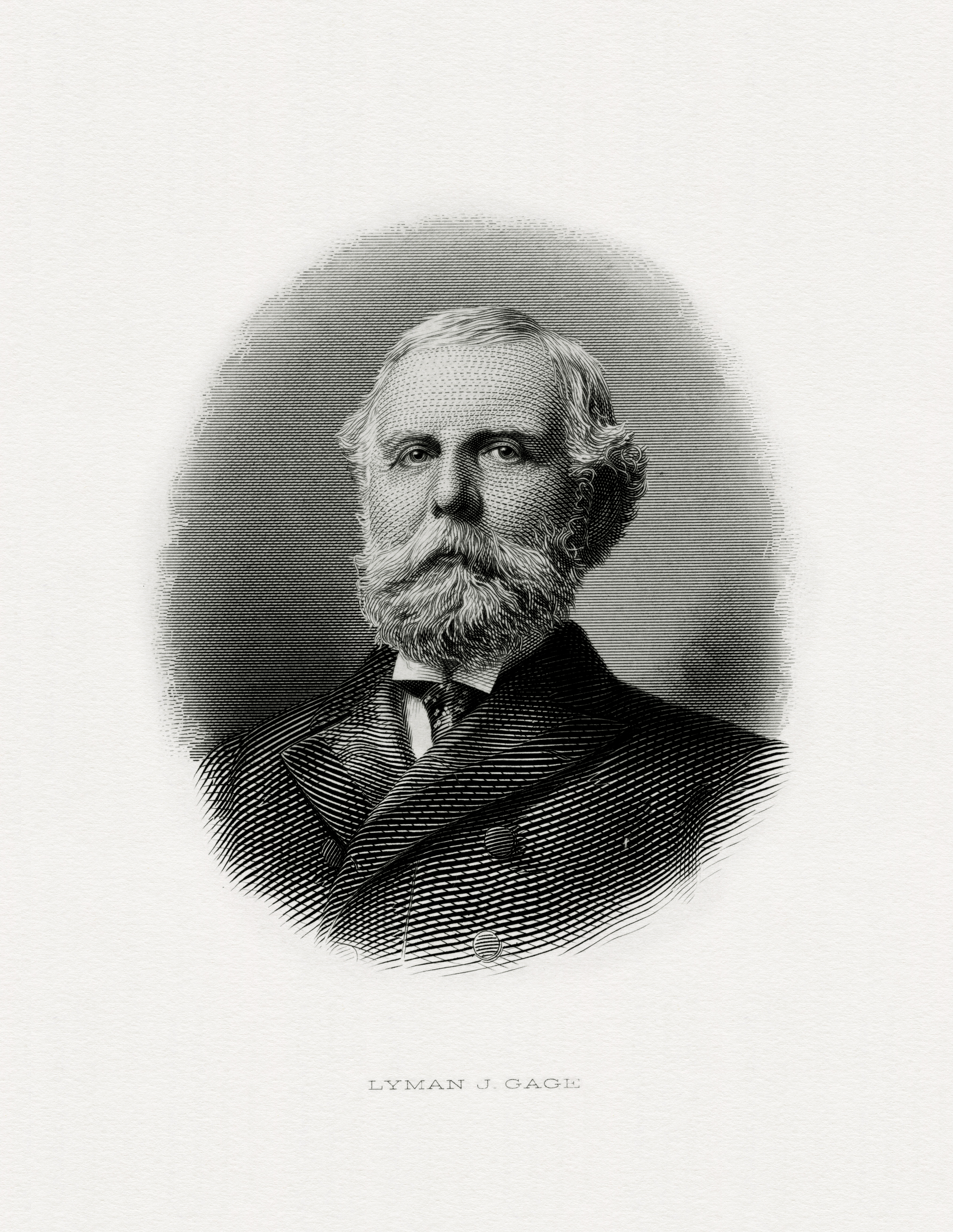 Engraved BEP portrait of U.S. Secretary of the Treasury Lyman J. Gage